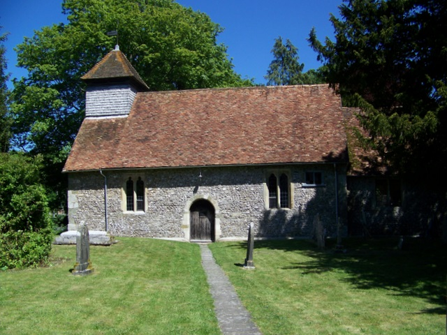 St Andrew's Church, Boscombe, Wiltshire, seen from the south